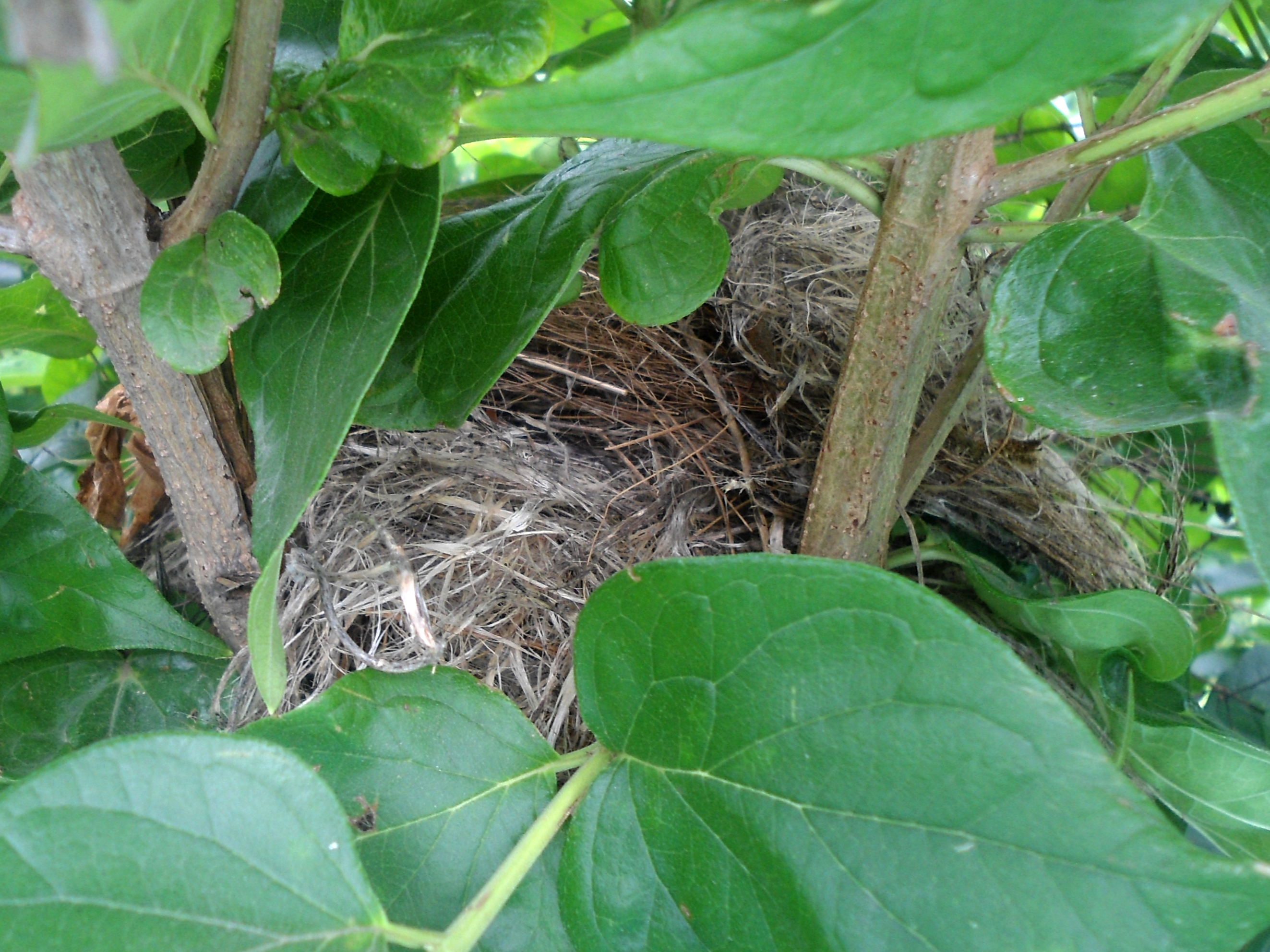 (Turdoides affinis) White headed babbler nest at Madhurawada, Visakhapatnam